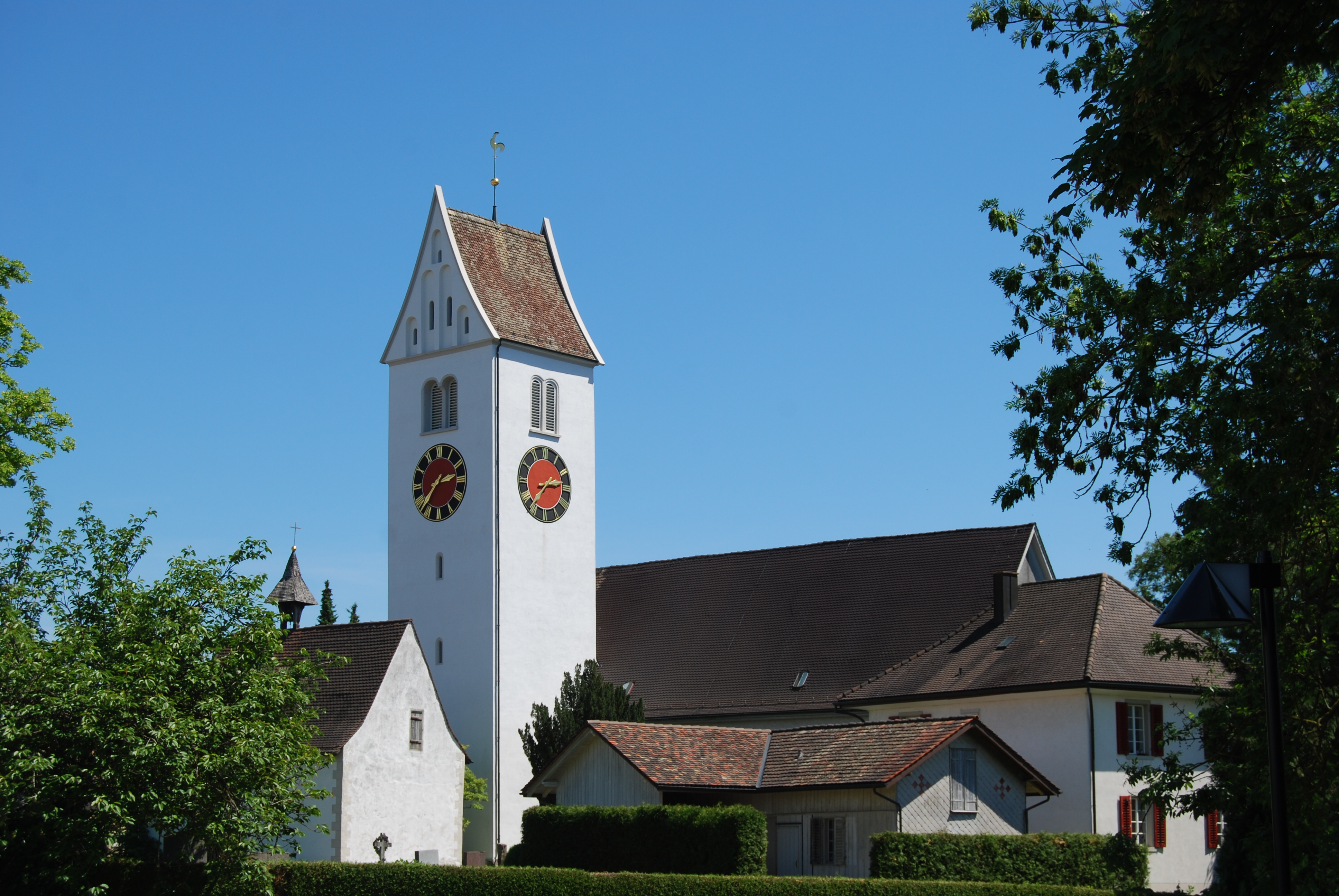 Protestant church and cemetery chapel Wängi, canton of Thurgovia, Switzerland